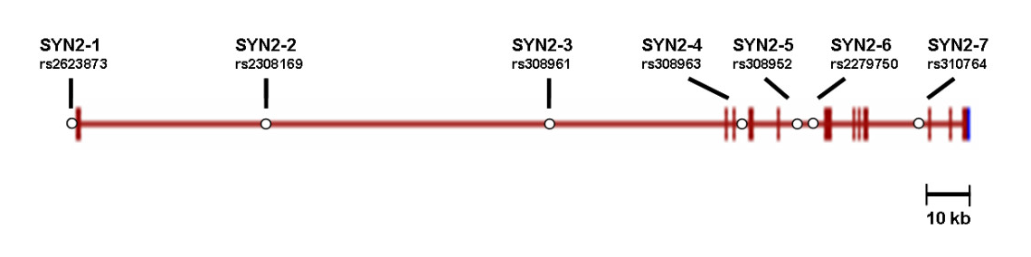 Figure legend in source article (CC-by-2.0): "Genomic organisation of SYN2 and locations of SNPs. SYN2 spans over 140 kb and is composed of 14 exons. Seven markers are indicated with the dbSNP reference ID